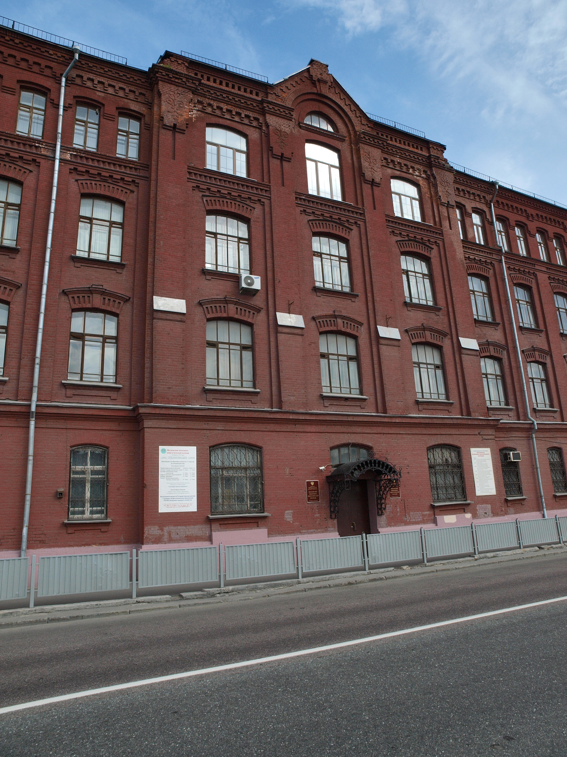 Prechistenskaya Embankment, Moscow.